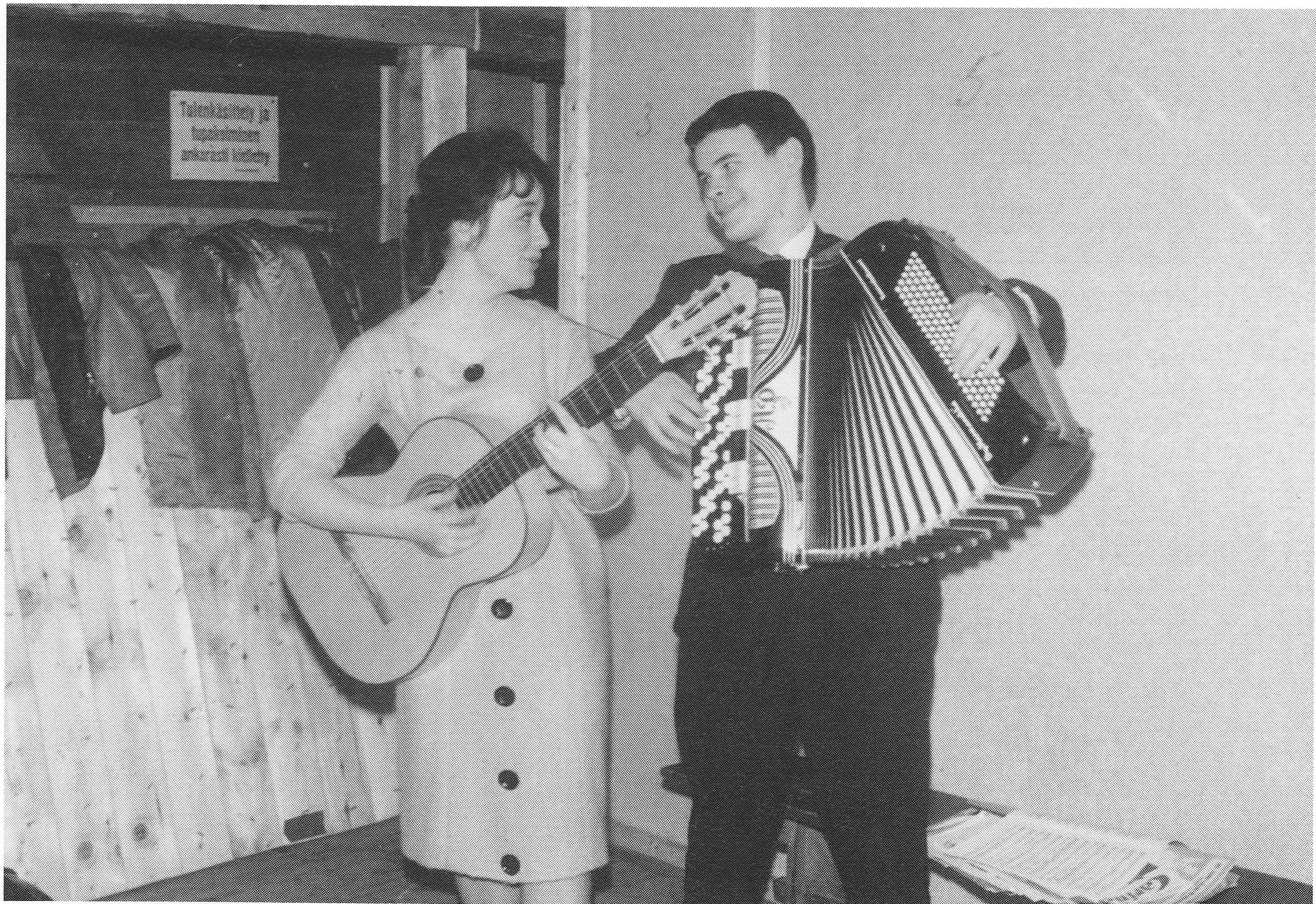 Laila Kinnunen and Alpo Pohja